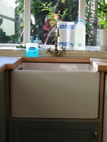 A Belfast sink in a utility room